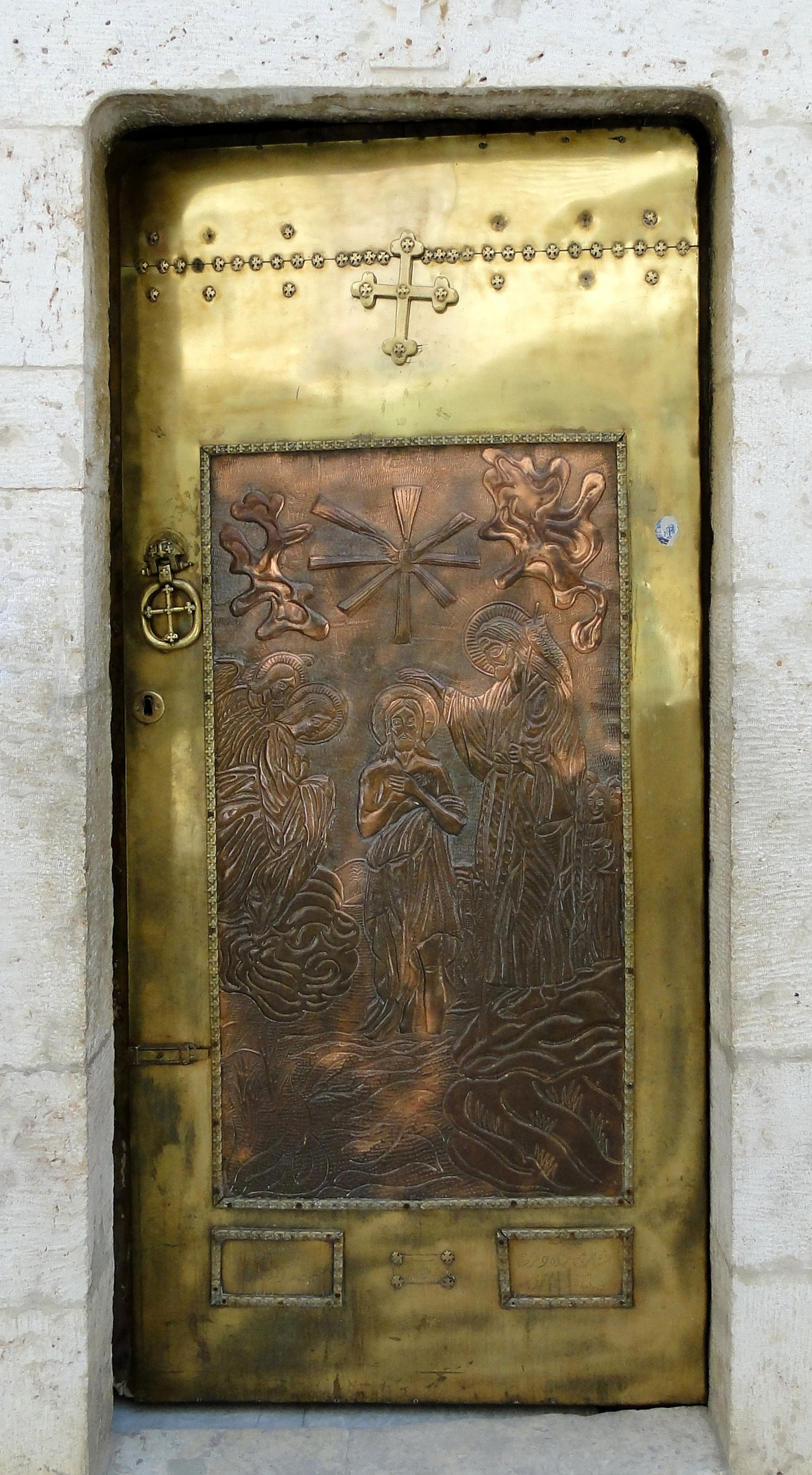 Door of the chapel of the Saint Thecla (Mar Takla) monastery, Ma'loula, Syria